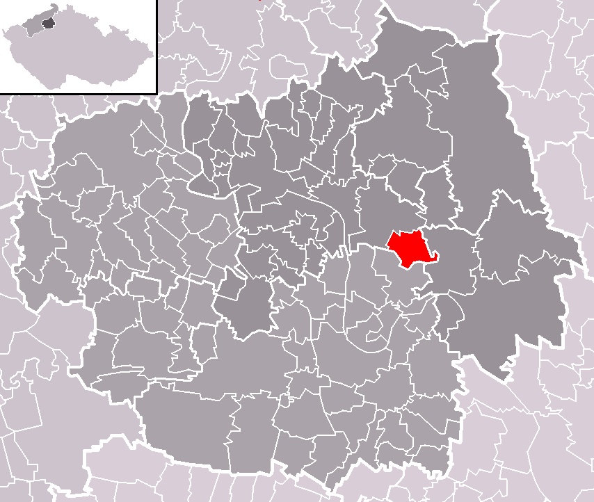 Location of Vrutice municipality within Litoměřice District and administrative area of Litoměřice as a Municipality with Extended Competence.